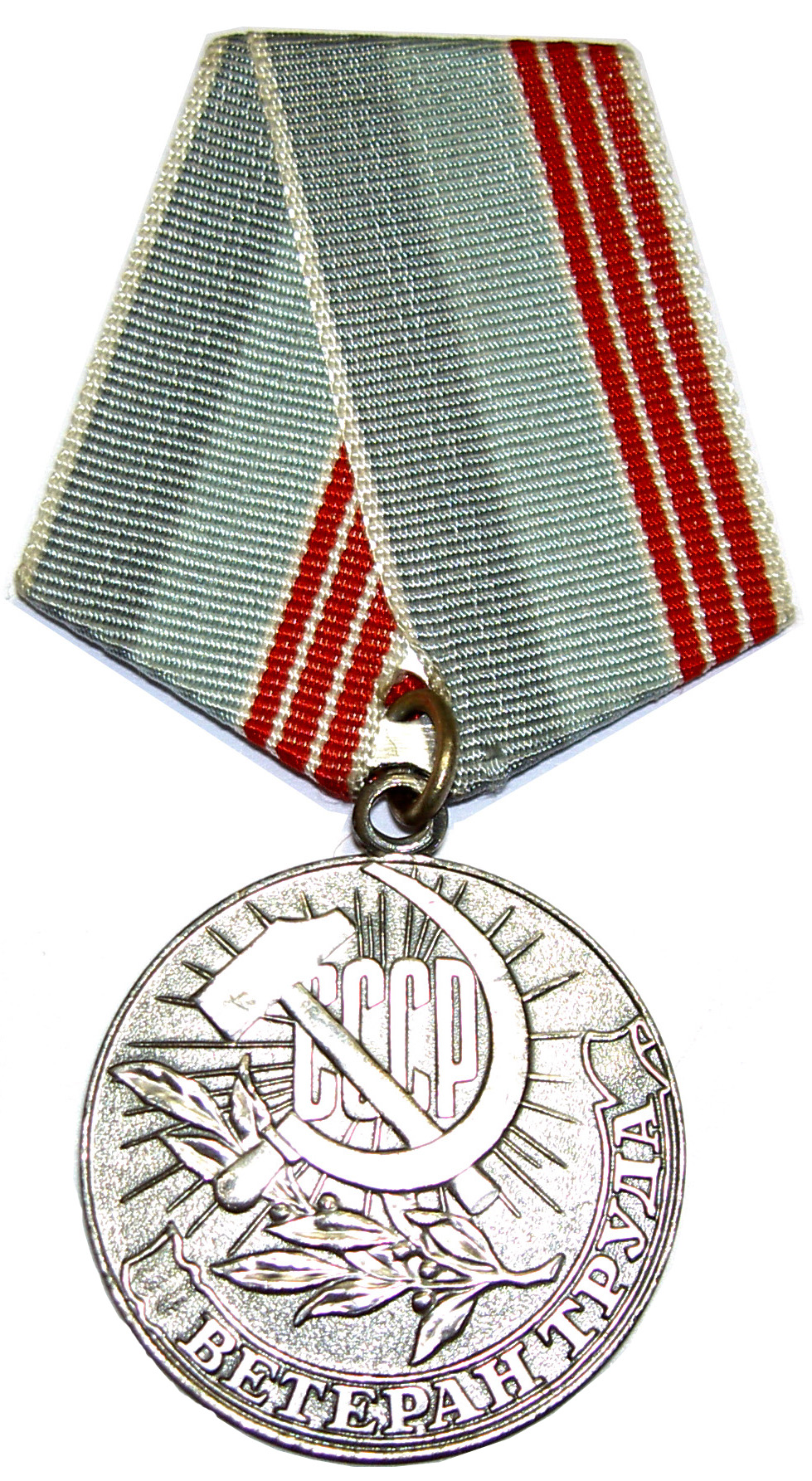 Soviet Veteran Of Labour Medal